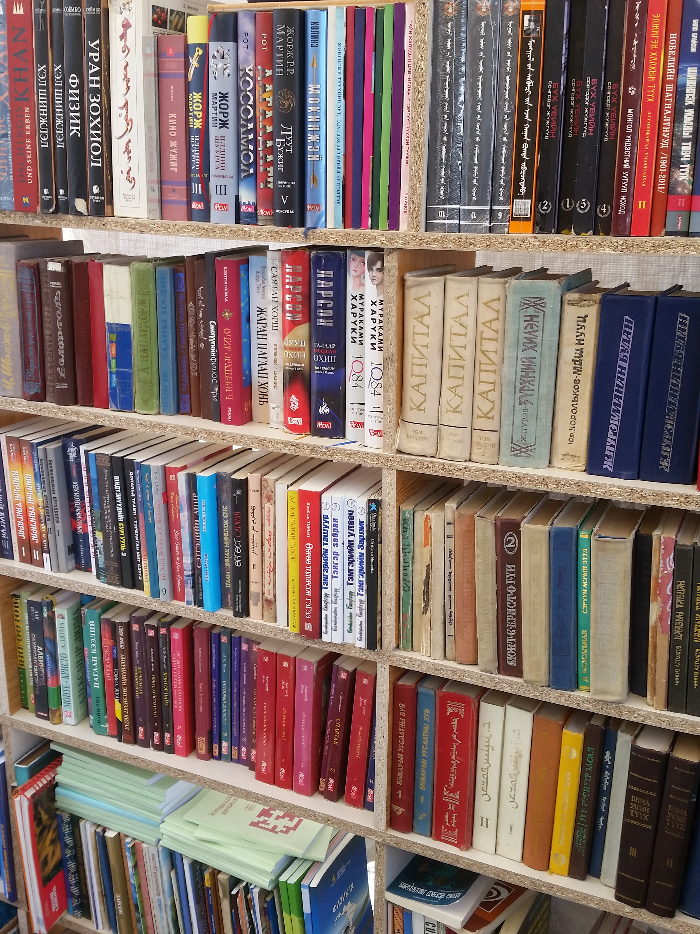 Ulaanbaatar book fair 2019 - 5